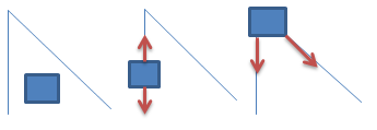 Basic scheme of corners detection